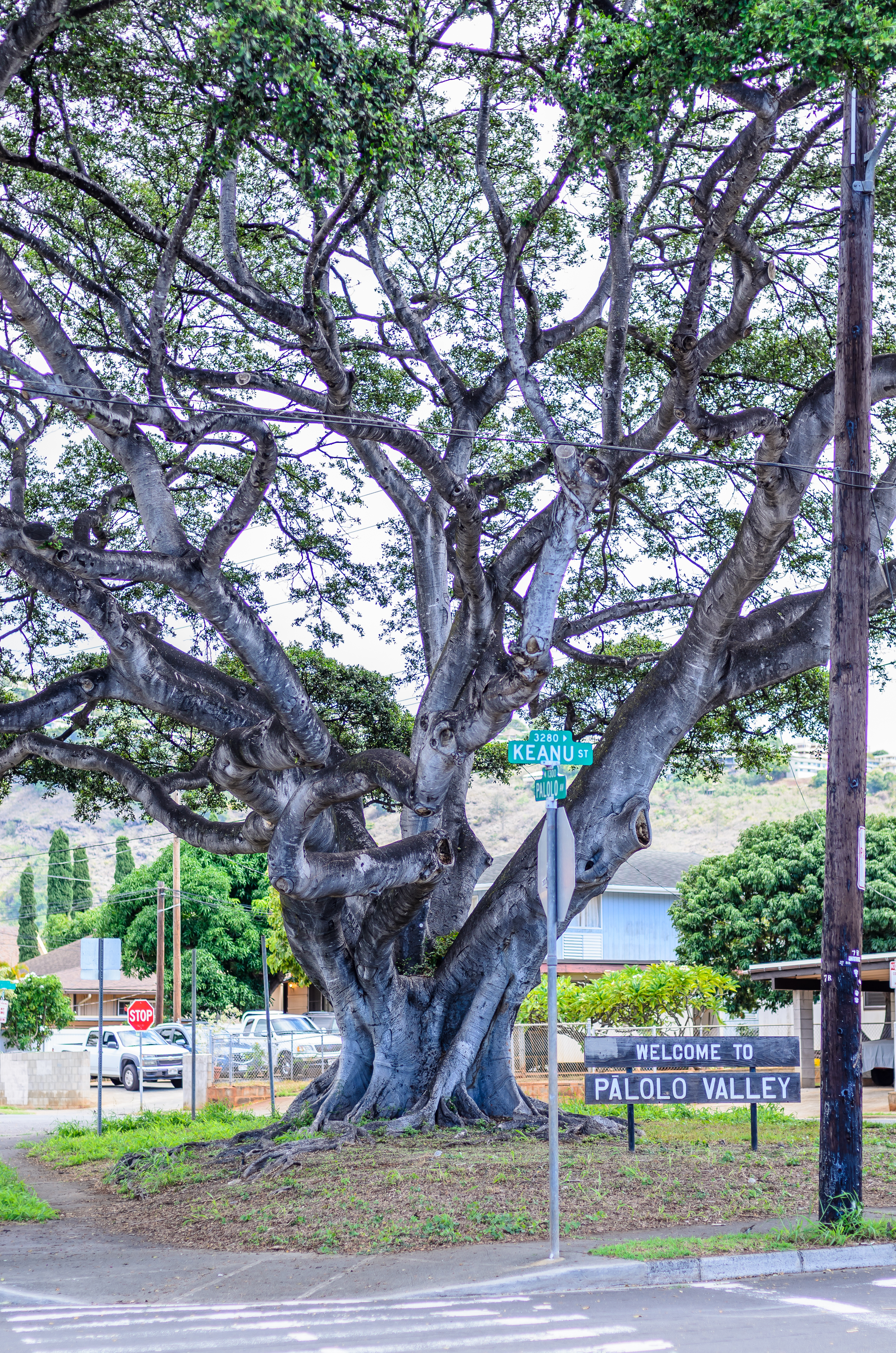 The welcome sign in Pālolo, Hawaiʻi